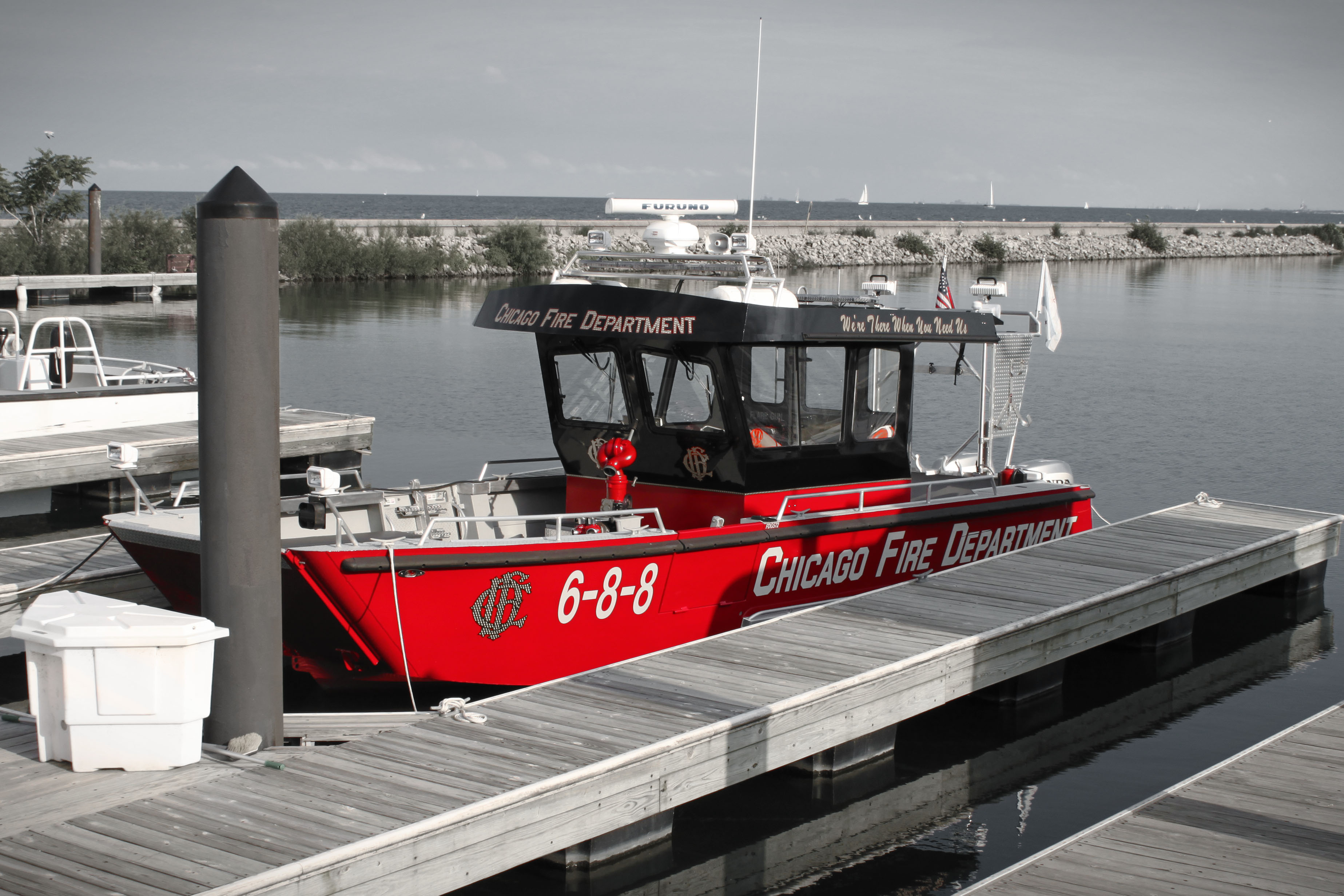 Chicago fire department boat